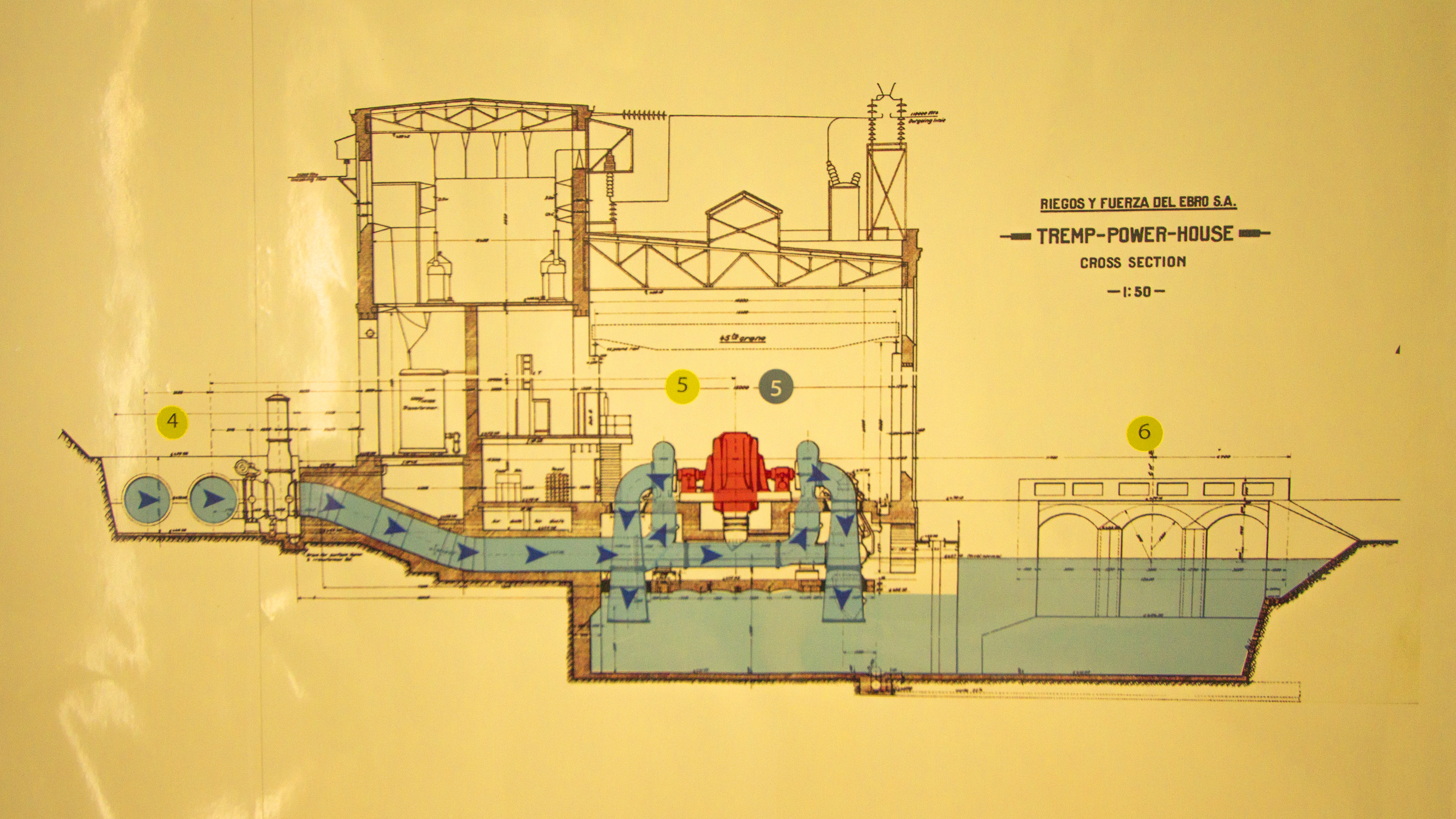 Talarn hydroelectric power house cross section (Catalan Pyrenees)